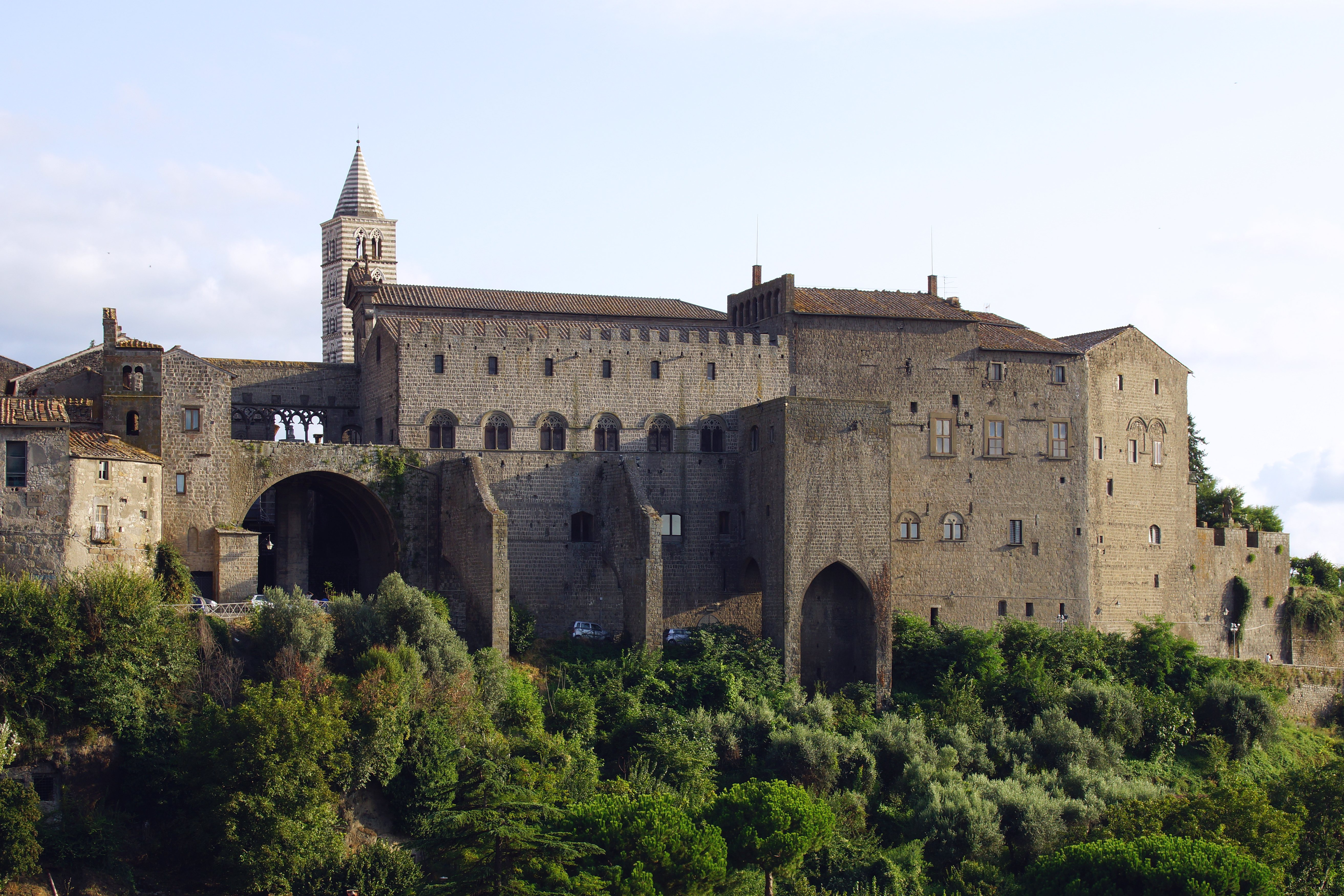 Palace of the Popes in the 13th century, built of 1255 in 1266, today residence of the Bishop of Viterbo. Behind the tower and Cattedrale di San Lorenzo, also called Duomo di Viterbo. Lazio region, Italy. Photo Wolfgang Pehlemann DSC00065